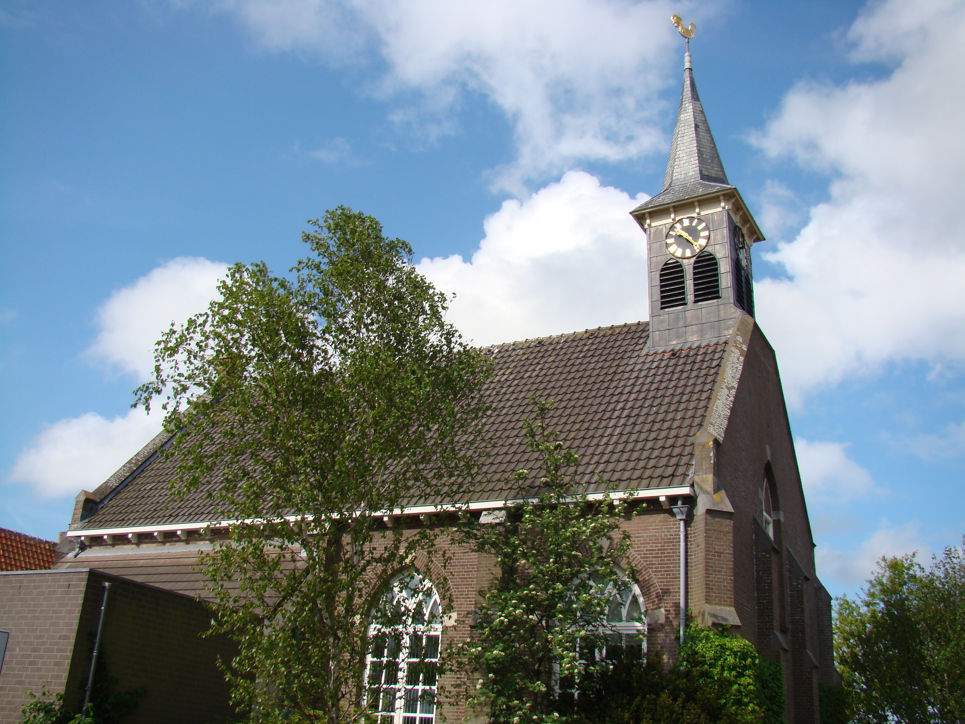 Impressions of Den Helder and surrounding, Julianadorp church